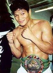 Before McBride61 left WP, he requested me to post this for him. He then told he had enough editing here for now. So he went good-bye.